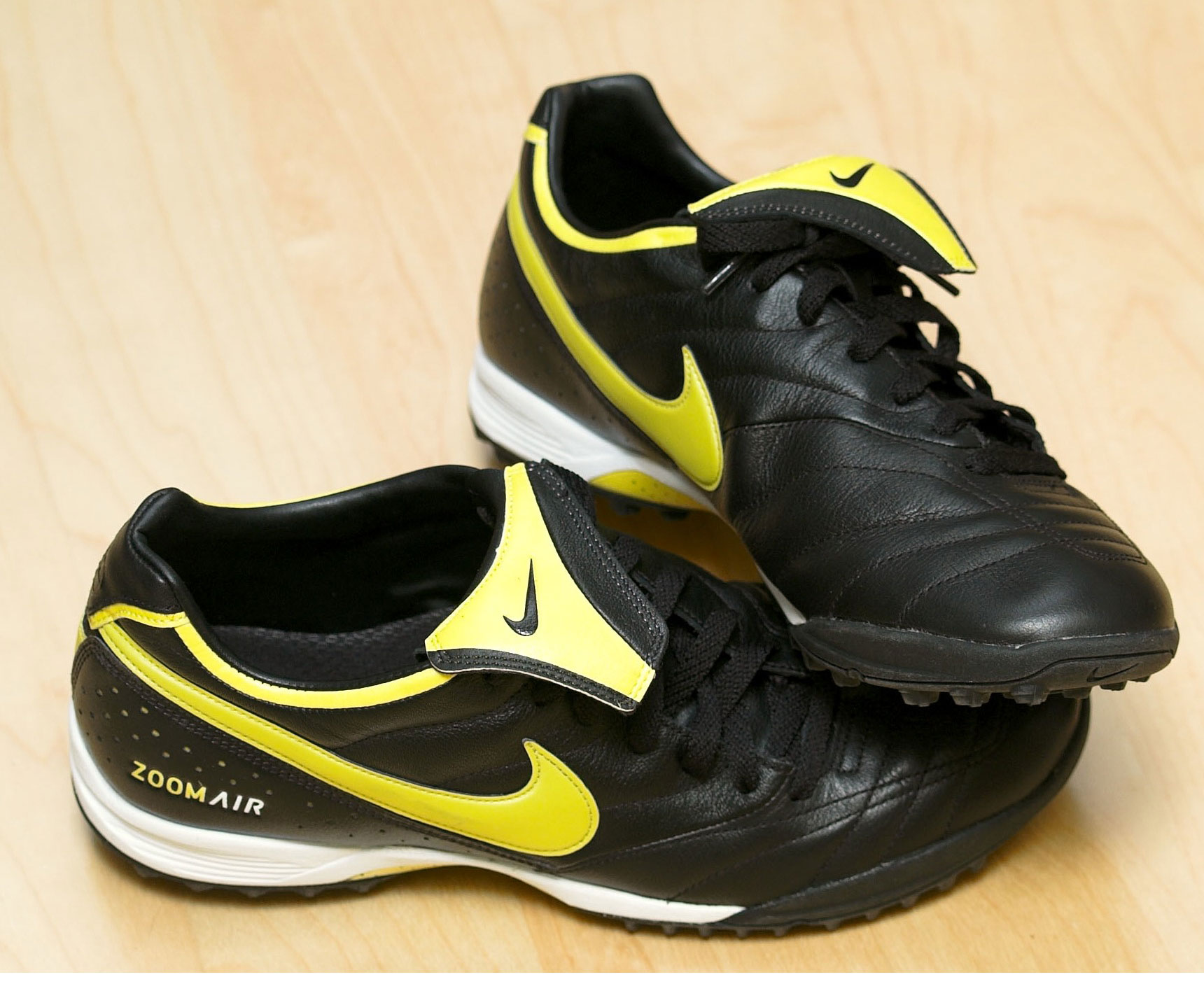 Nike Zoom Air Football Boots, Made in China. These are so called turf shoes (smaller sole pattern), intended to be used on (hard) artificial turf or sand. Pic 2 of 2.